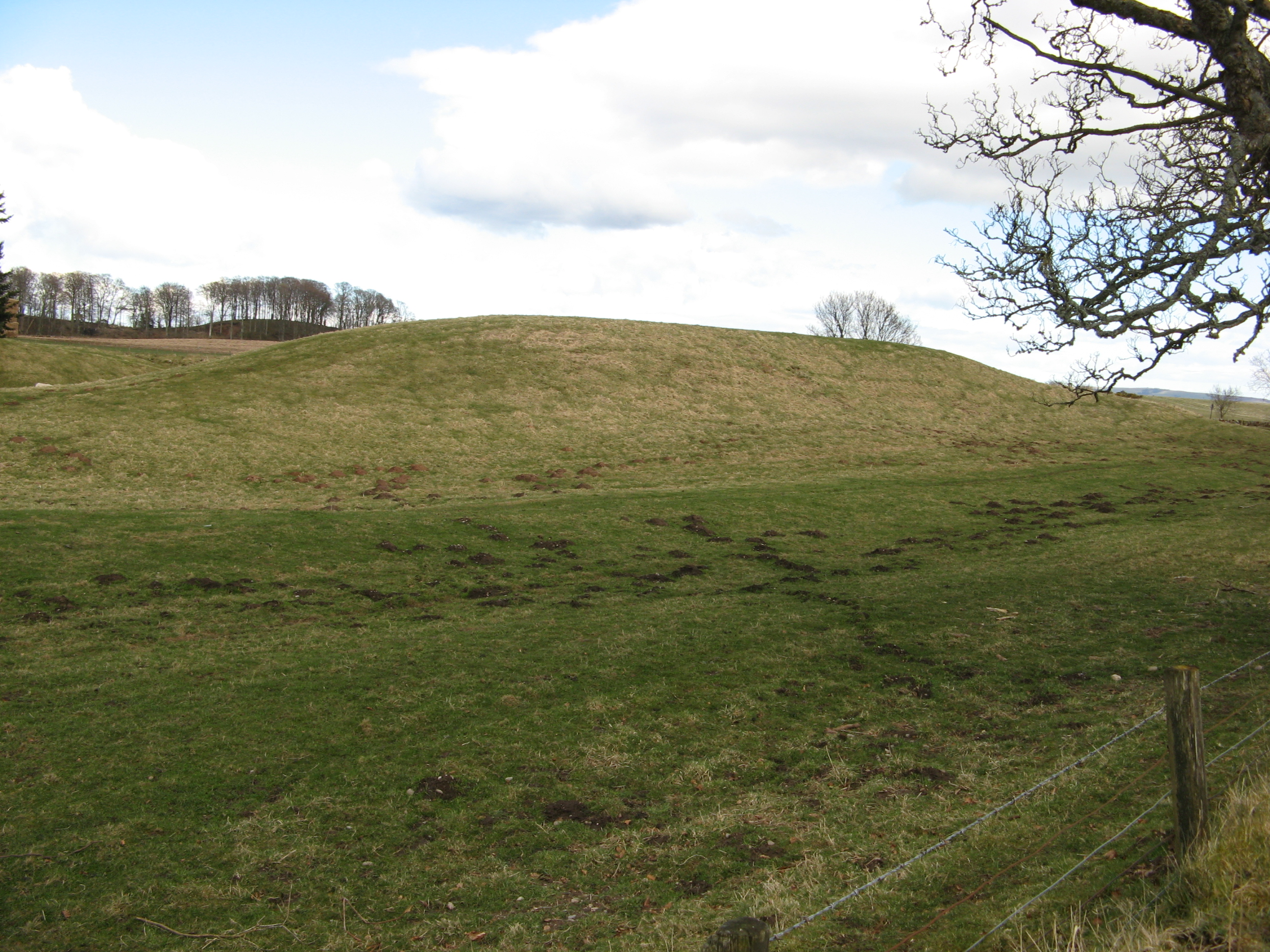 Edzell Castle, Angus, Scotland. The motte of the original Edzell Castle, known as Castlehillock